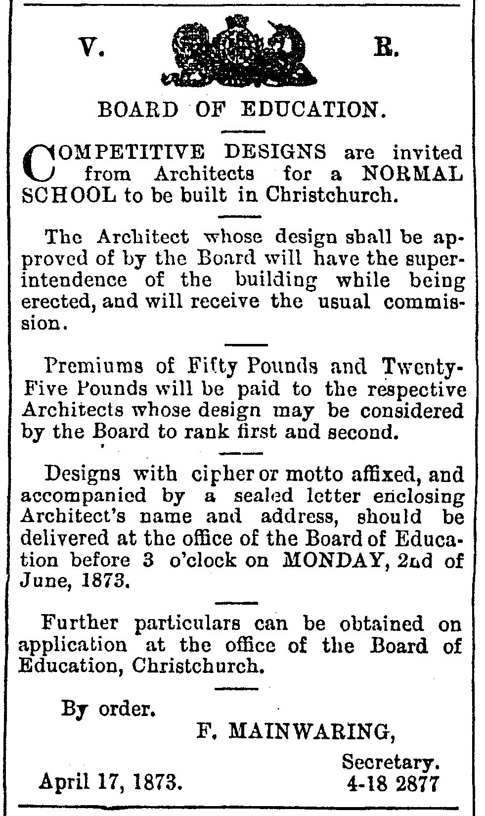 Call for an architectural competition.